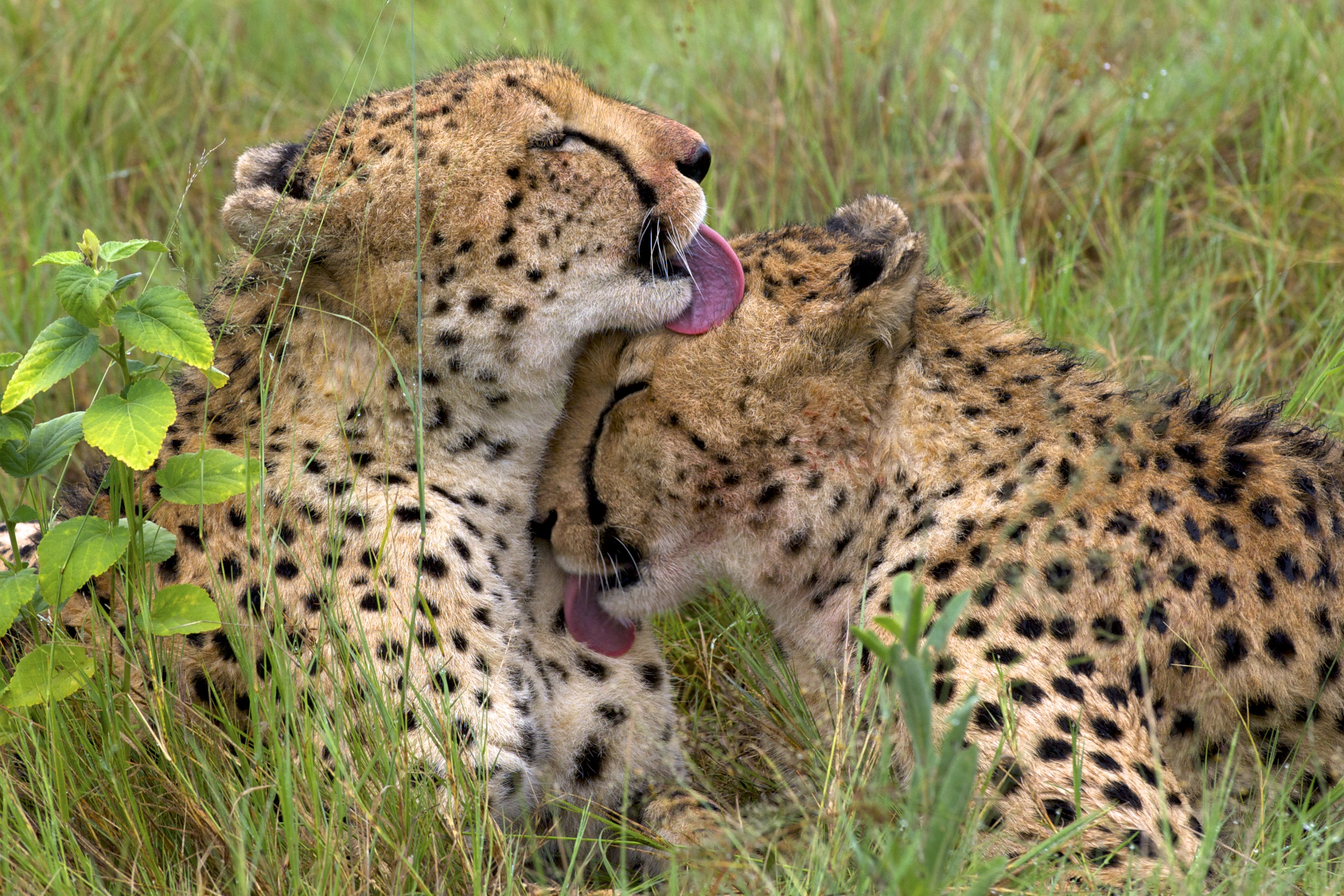 Cheetah (Acinonyx jubatus) Two young cheetah brothers cleaning each other after having fed. Okavango Delta, Botswana. This image is especially inspirational: shows brotherhood, fraternal love, cooperation, mutual help.